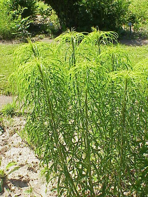 Name Helianthus orgyalis Family Compositae Image no. 1 Permission granted to use under GFDL by Kurt Stueber